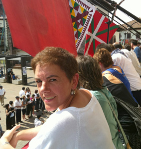 Mertxe Aizpurua